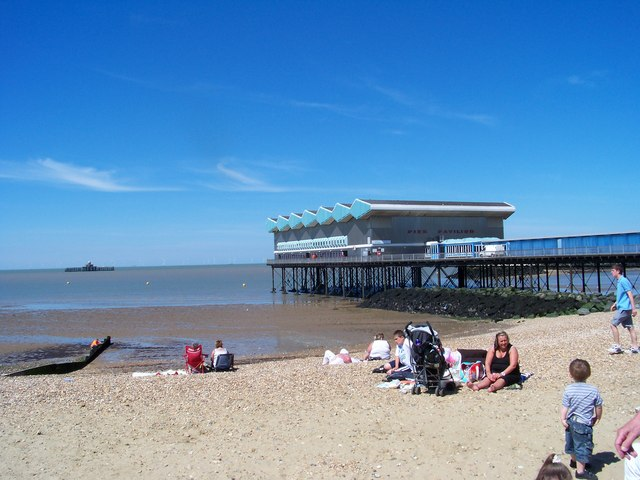 The Pier, Herne Bay. The now disconnected landing stage for the pier is on the left.